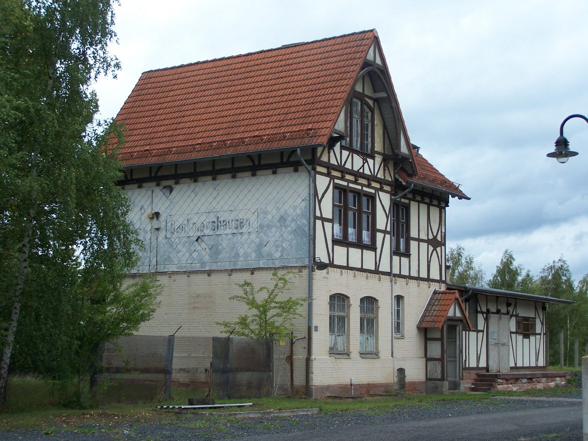 Dankmarshausen - abandoned railway station.